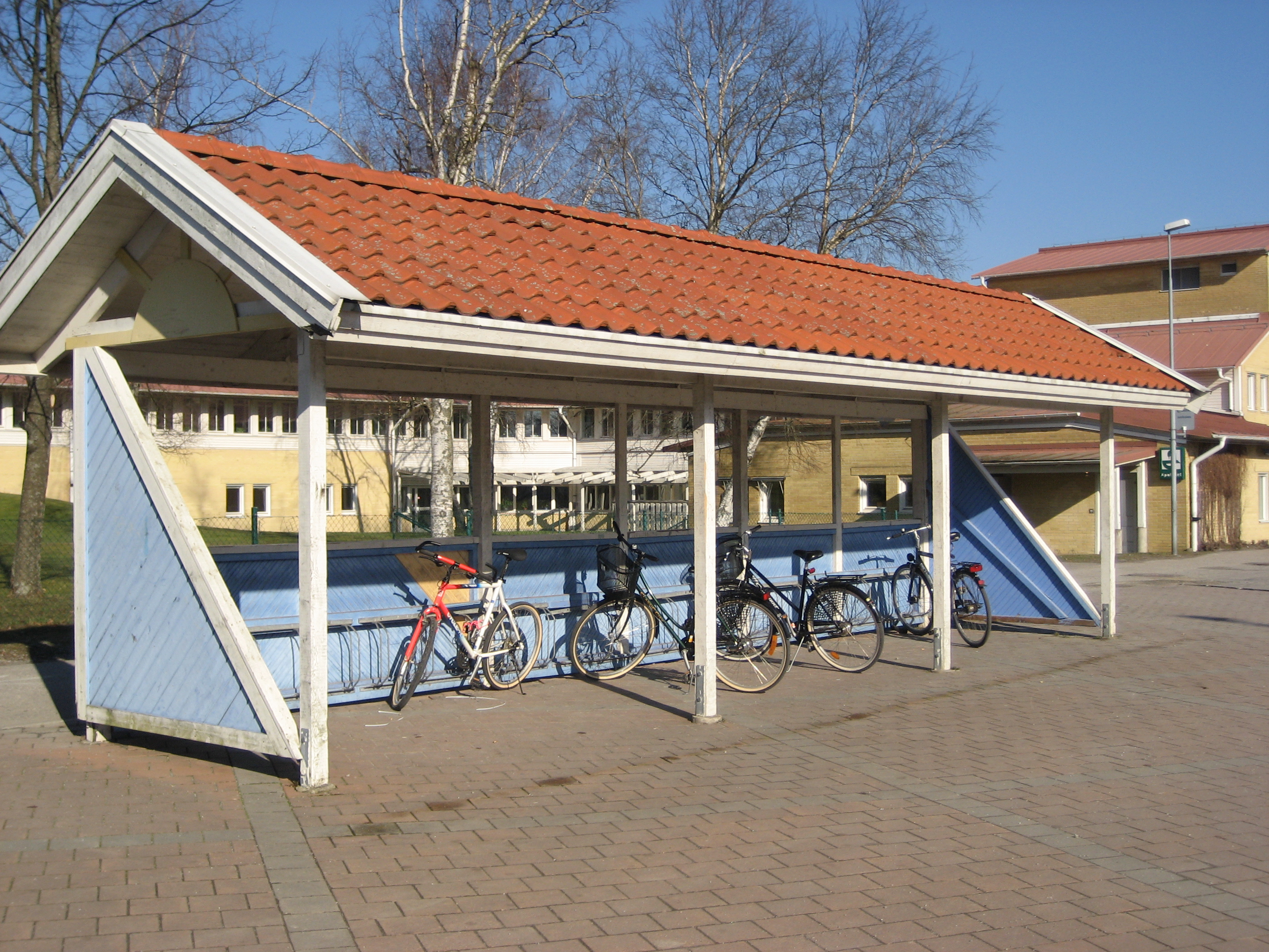 Bicycle rack with a roof!